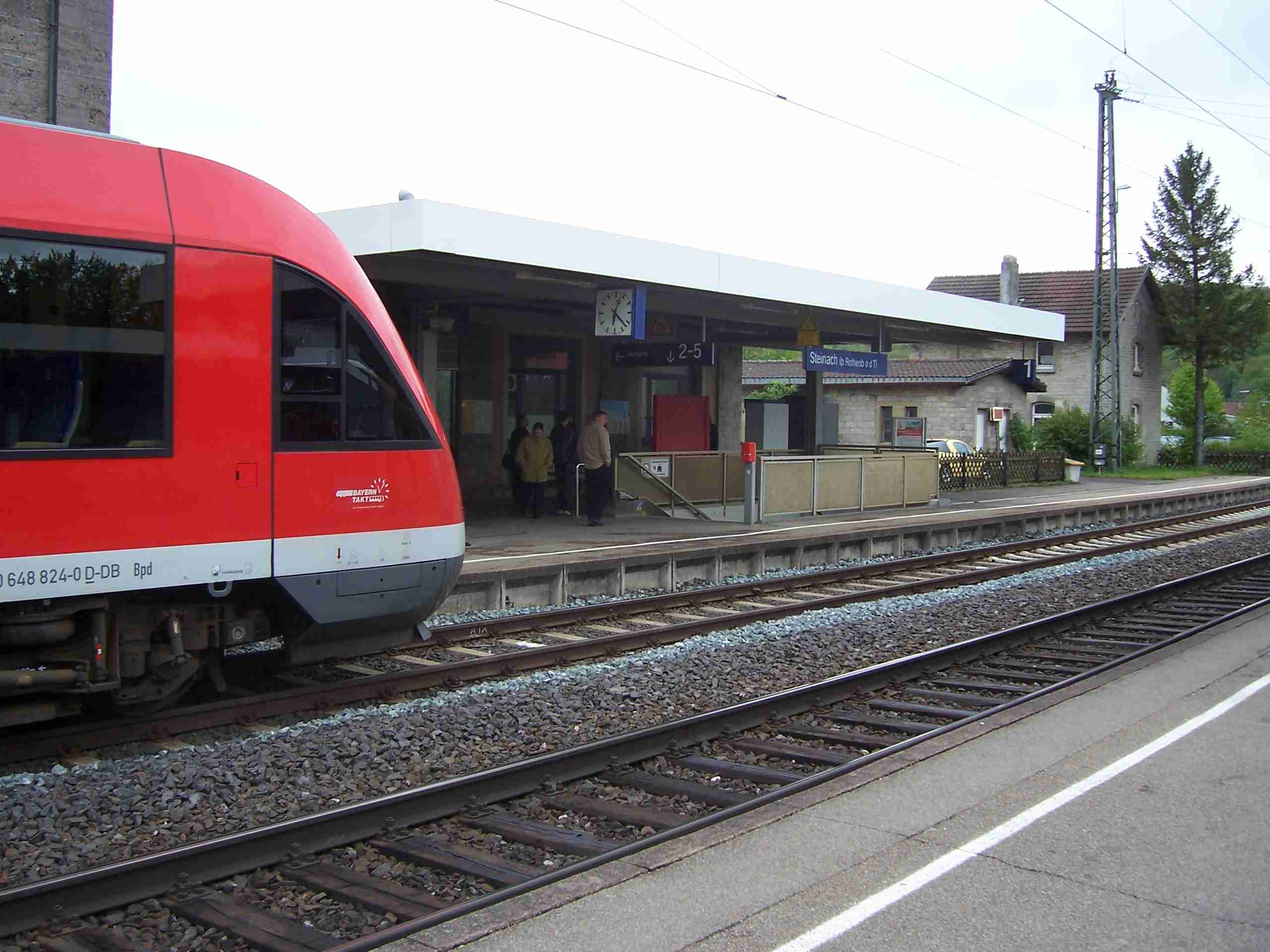 Steinach (Rothenburg) train station, Mittelfranken, Germany